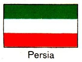 Persia flag 1925Tietosanakirja